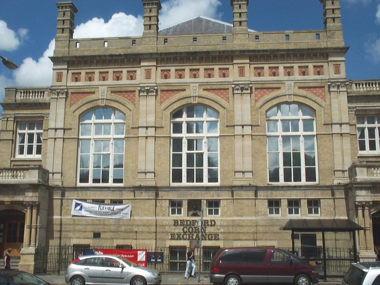 Bedford Corn Exchange, Bedford's Premier venue for music (and some drama). Glenn Miller played there in World War 2 and there is a little bust of him in an alcove just above the name. It is also the venue for the Bedford Beer Festival. It was refurbished a couple of years back to fix the awful acoustics. On the front there is a bust of Glenn Miller and 3 plaques:- File:GlennMillerBustBedford.JPG, File:BedfordCornExchangeGlennMillerPlaque.JPG, File:BedfordCornExchangeLaidPlaque.JPG and File:BedfordCornExchangeOPenPlaque.JPG.